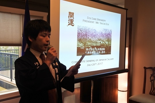 Yaichi Doi, President of Doi Brewery Corporation, made a presentation at the Sake Stampede! in Calgary City, Alberta Province on July 26, 2017.